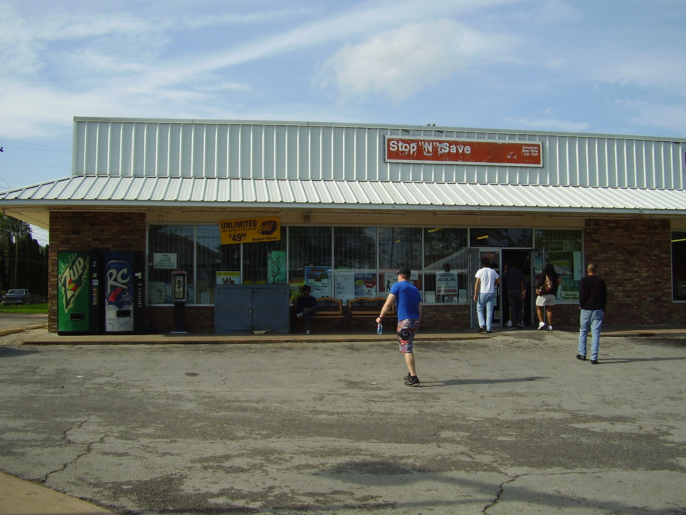 Exxon Stop N'Save in Brenham - doubles as the Kerrville Bus Company terminal